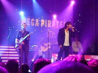 3Js tijdens Mega Piraten Festijn in Marum (2008).